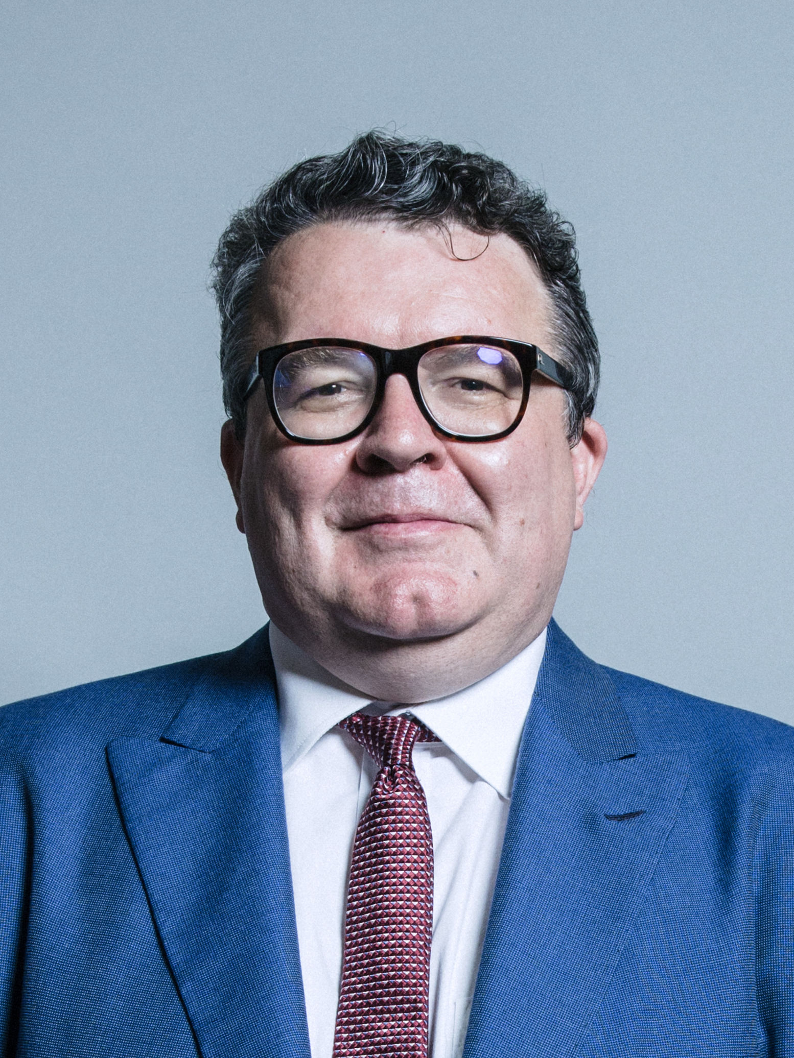 Official portrait of Tom Watson